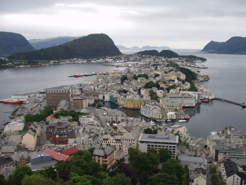 Ålesund seen from Aksla mountain